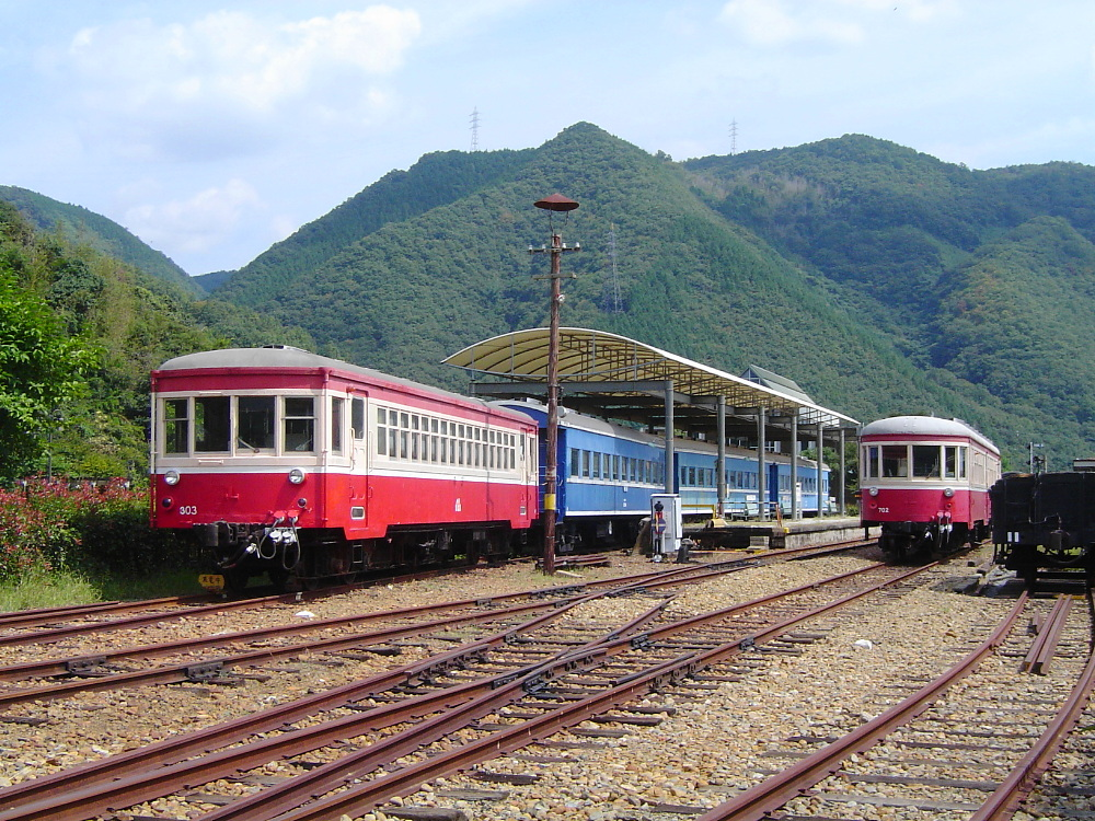 Train of Yanahara mine park.